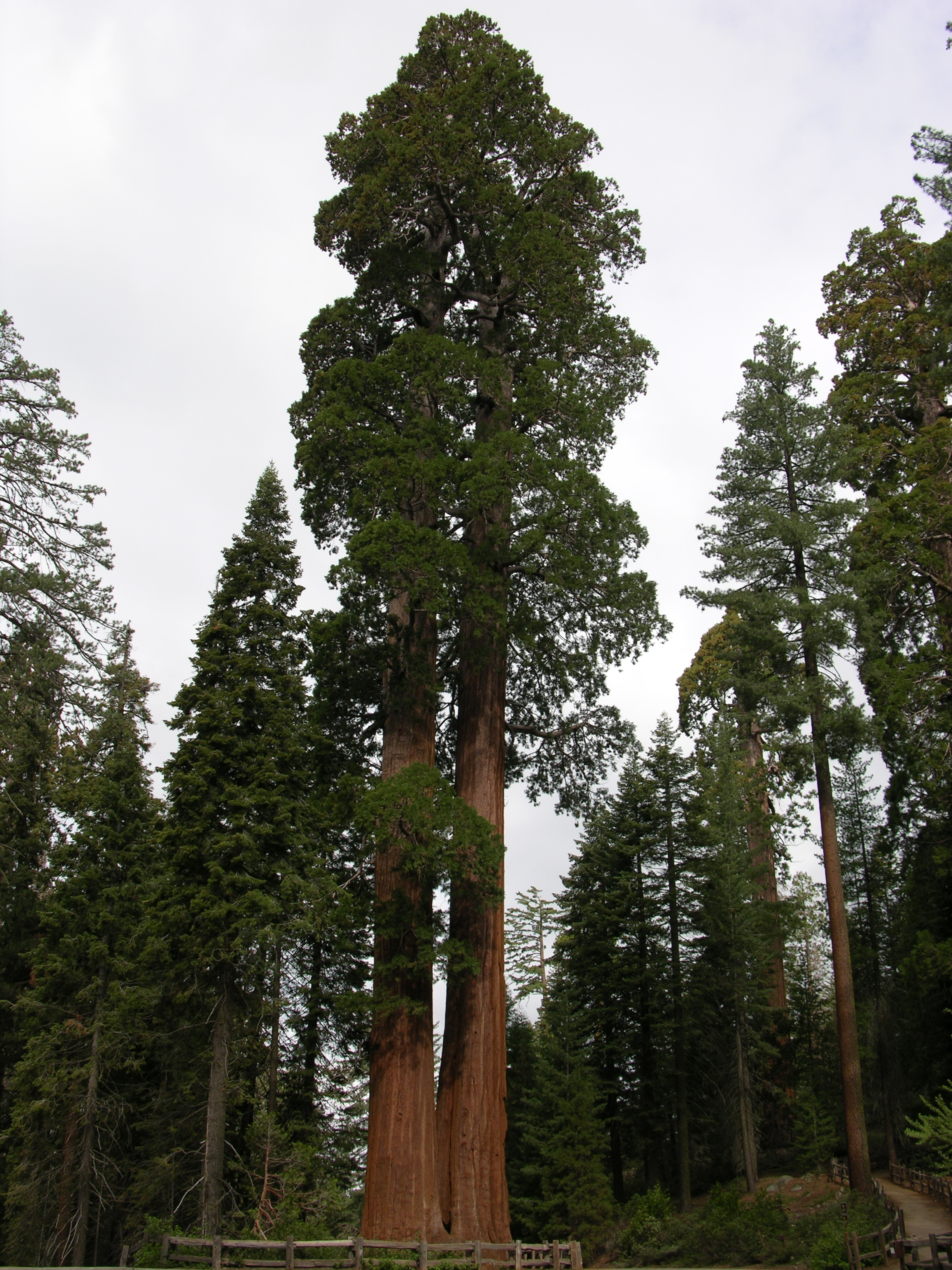 Two trees or one tree with two branches have been locked together for centuries. California, Sequoia National Park.